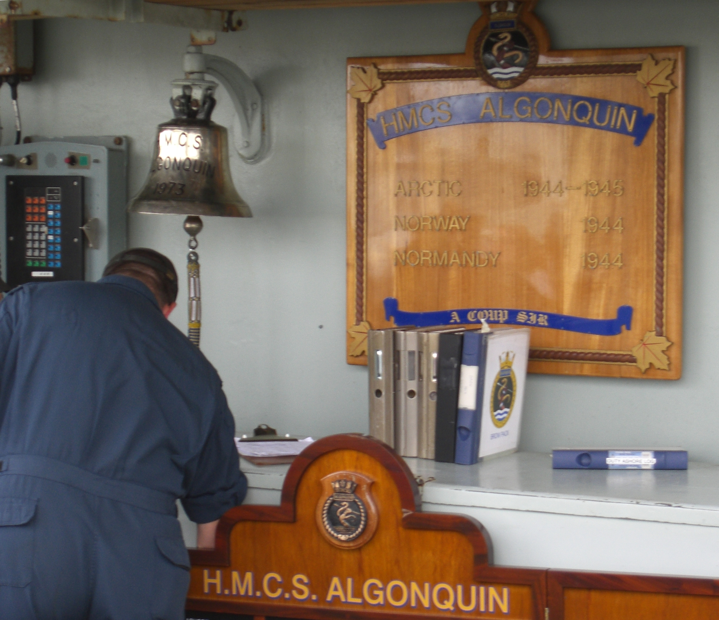 Ship's Bell of HMCS Algonquin (DDH 283)